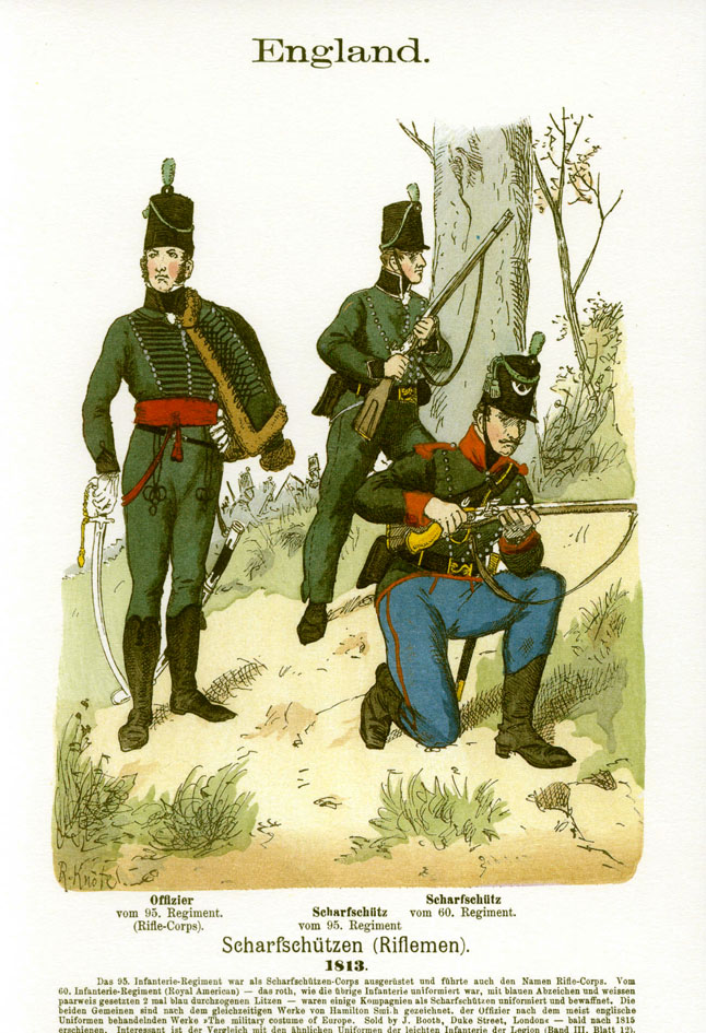 From left to right: officer of the British 95th Rifle Regiment, soldier of the 95th Rifle Regiment and soldier of the British-Canadian 60th Rifle Regiment.